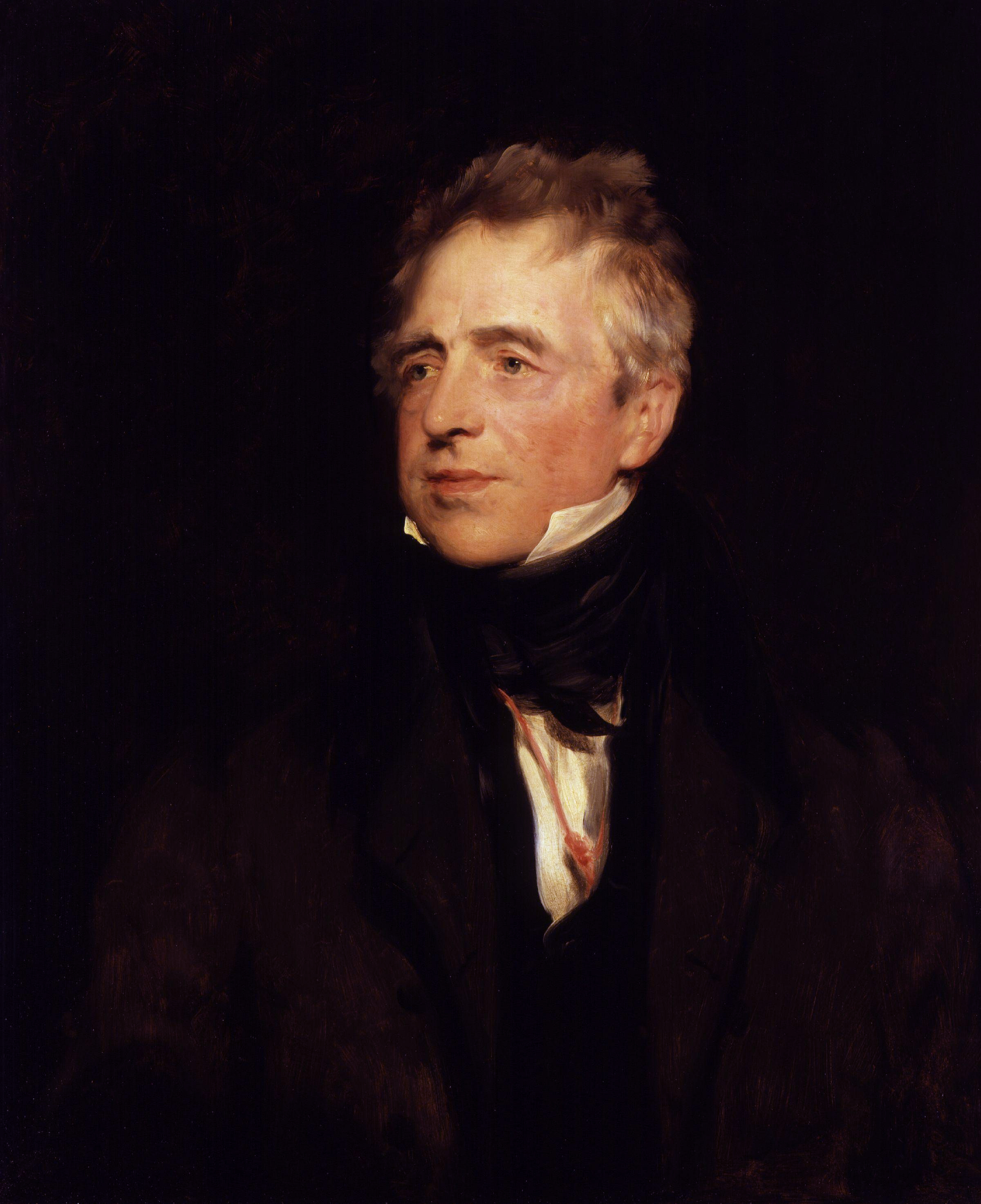 John Fawcett, by Sir Thomas Lawrence (died 1830). All images in this batch have been confirmed as author died before 1939 according to the official death date listed by the NPG.